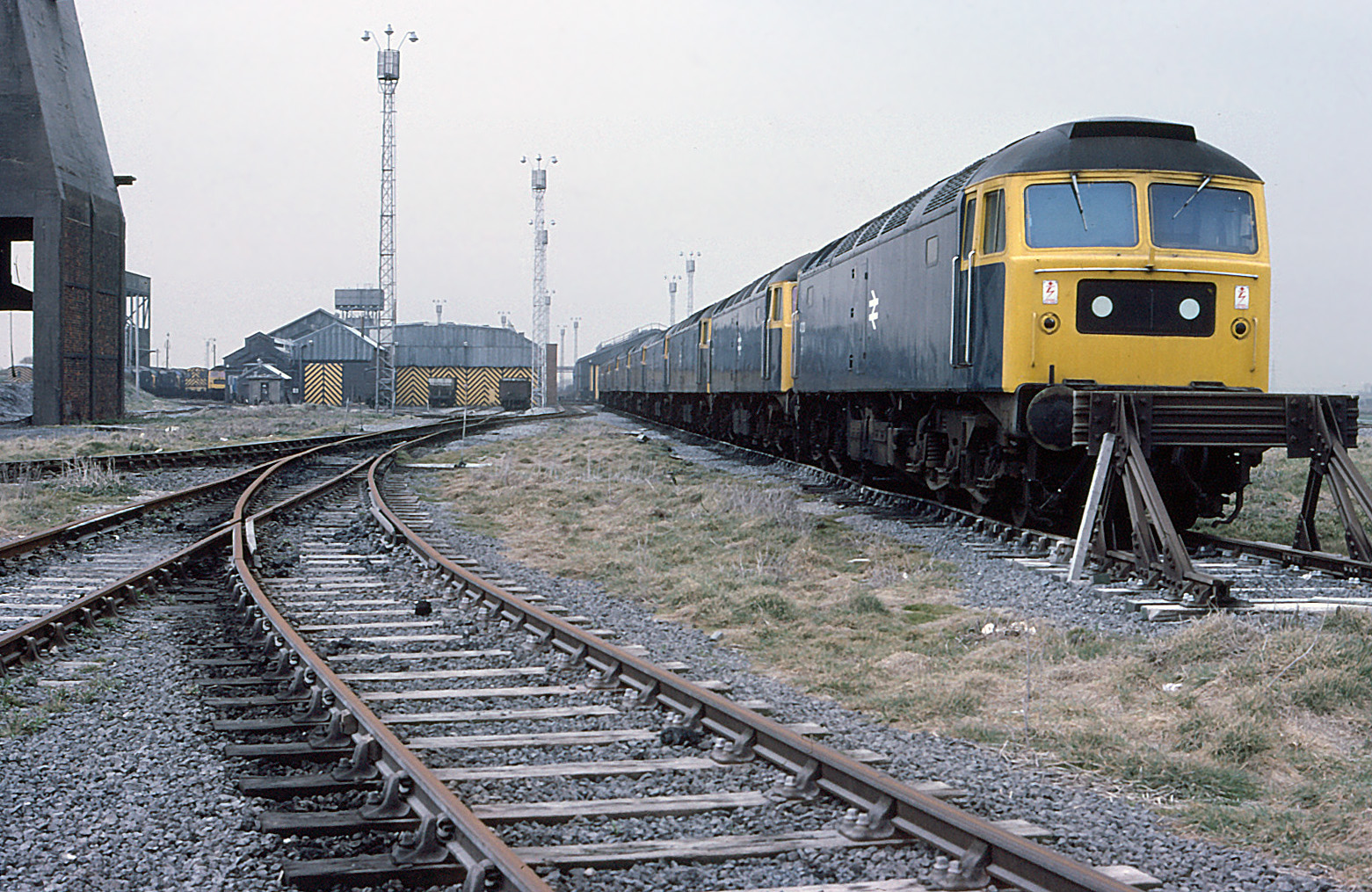 Immingham Locomotive Depot